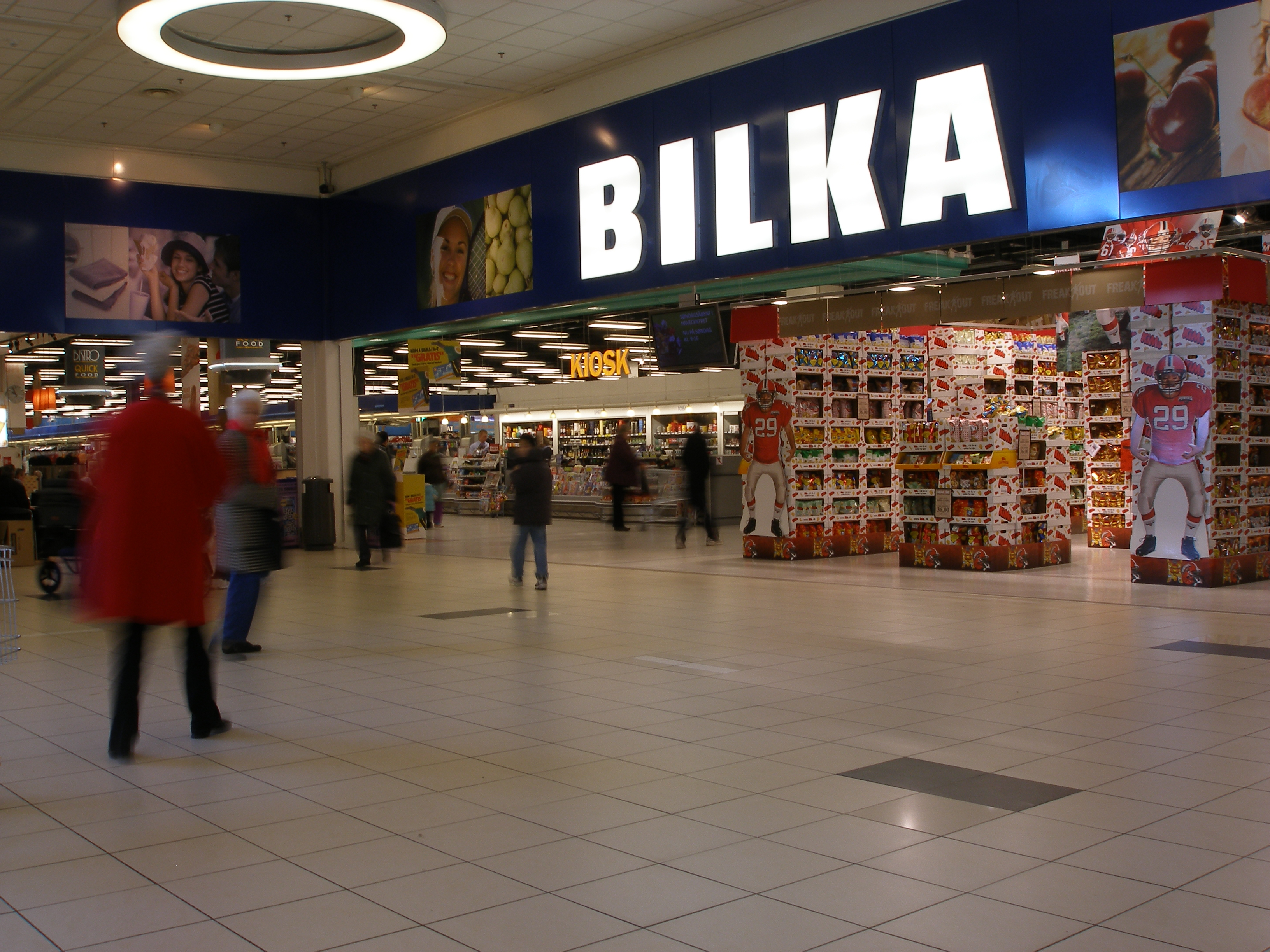 Bilka supermarket in Ishøj, Denmark